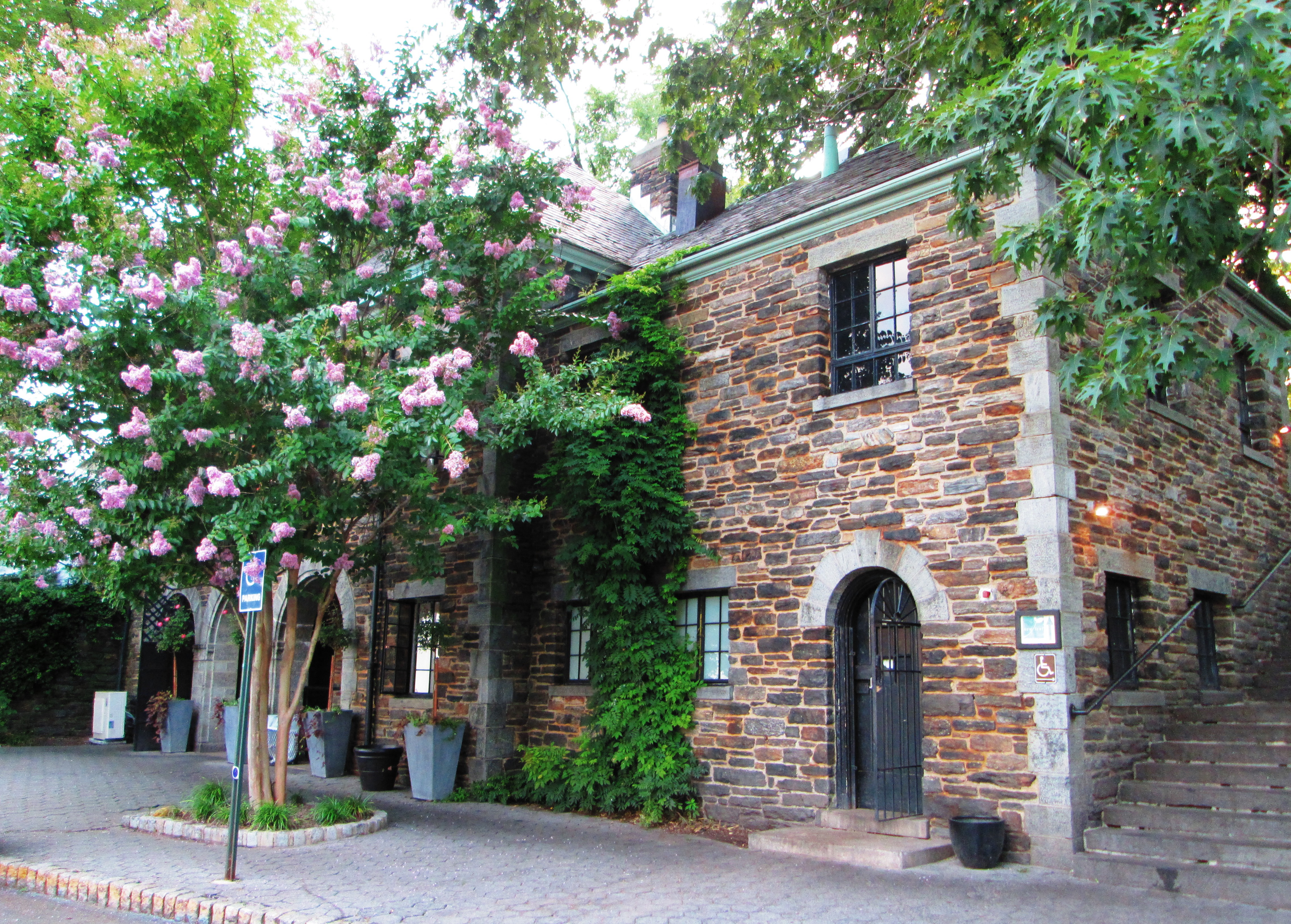 The rear of the New Leaf restaurant in Fort Tryon Park